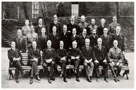 Imperial war cabinet